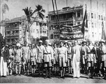 Dr Babasaheb Ambedkar observing Rally of Samata Sainik Dal established at Kamgar Maidan, Parel, Mumbai